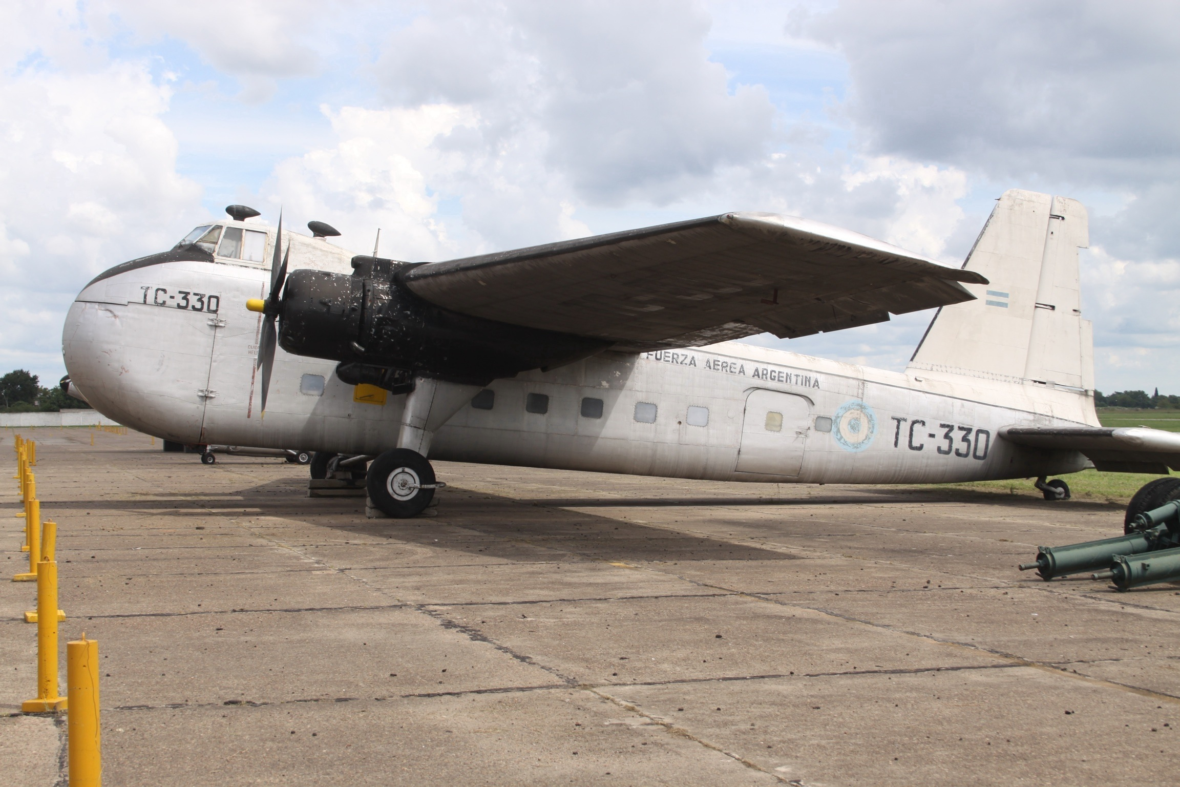 Moron Museo Nactional De Aeronautica